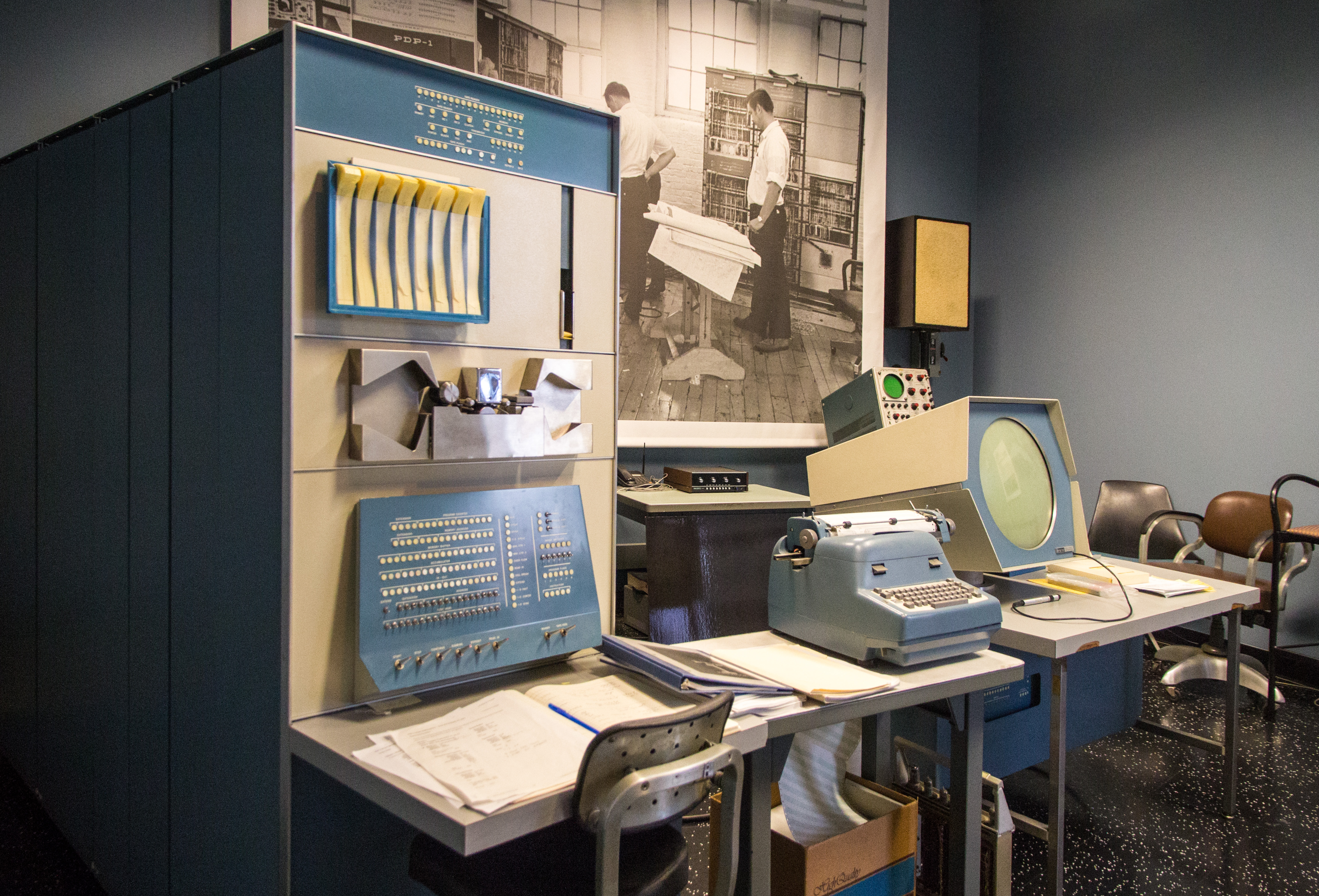 DEC PDP-1 Demo Lab at Mountain View's Computer History Museum